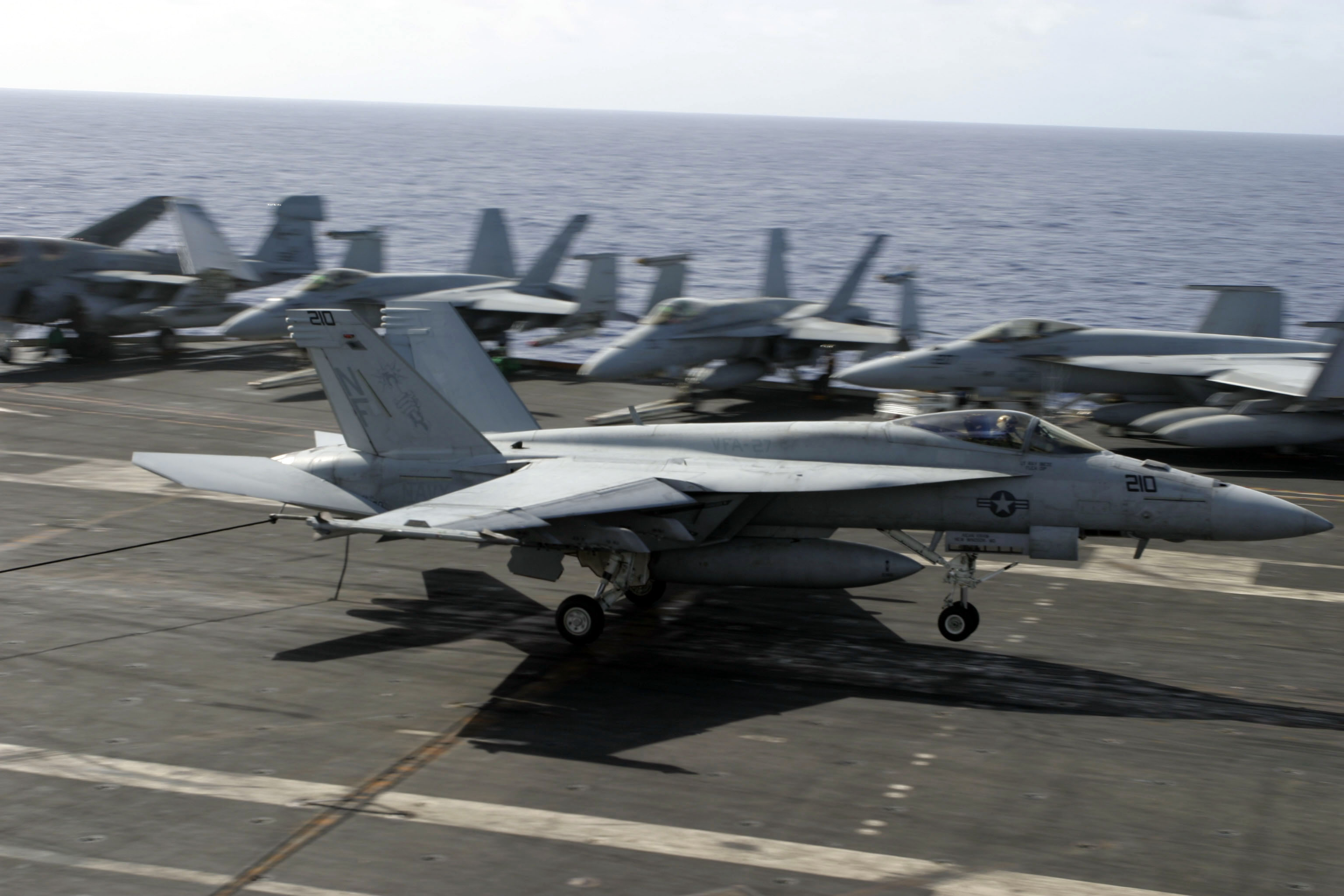 Philippine Sea (June 23, 2006) - An F/A-18E Super Hornet assigned to Strike Fighter Squadron Two Seven (VFA-27) lands on the flight deck aboard conventionally-powered aircraft carrier USS Kitty Hawk (CV 63) during Exercise Valiant Shield 2006. Valiant Shield focuses on integrated joint training among U.S. military forces, enabling real-world proficiency in sustaining joint forces and in detecting, locating, tracking and engaging units at sea, in the air, on land and cyberspace in response to a range of mission areas. U.S. Navy photo by Photographer's Mate 3rd Class Jarod Hodge (RELEASED)